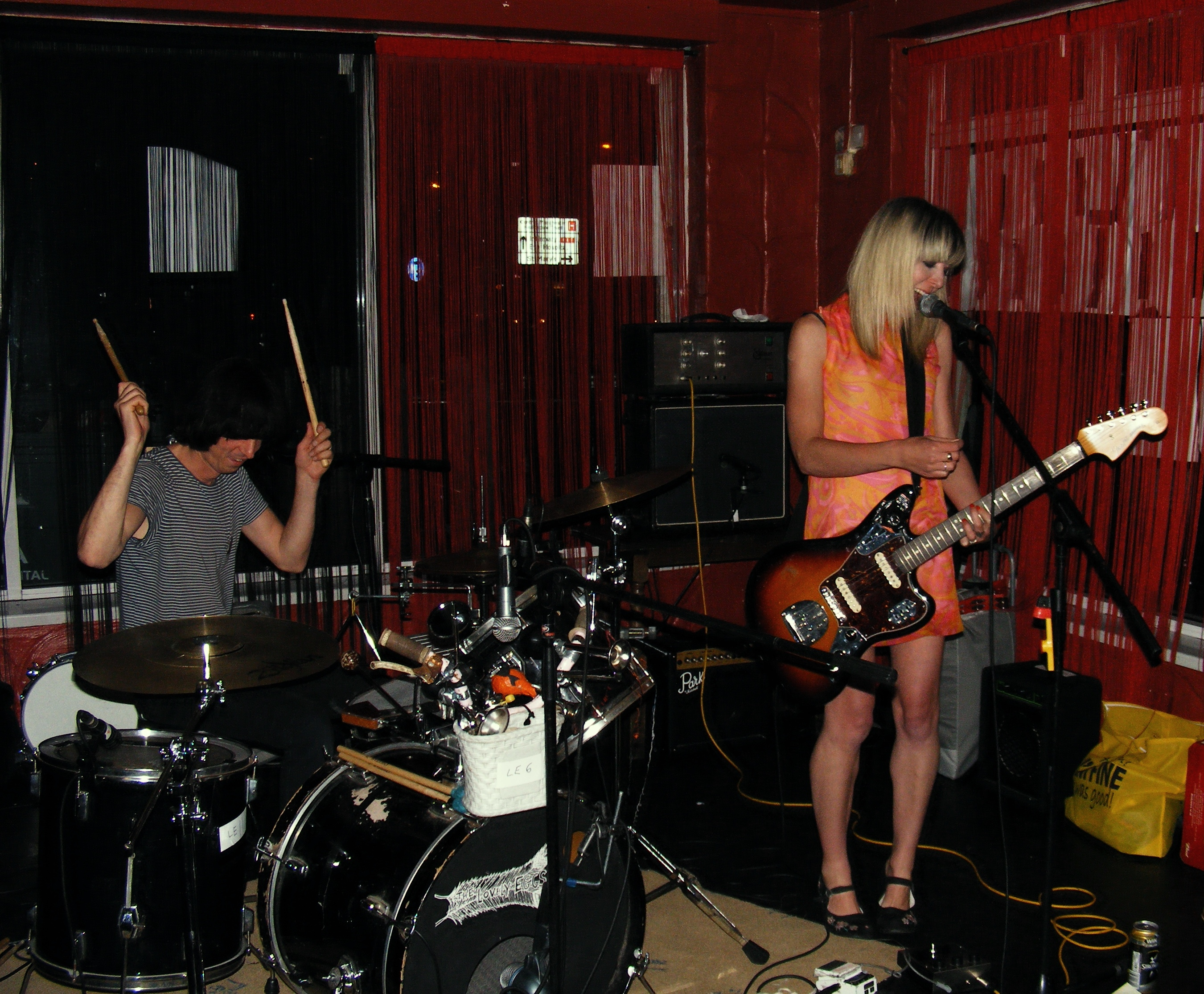 The Lovely Eggs at Cafe Saki, Manchester, on Tuesday the 13th of July 2010